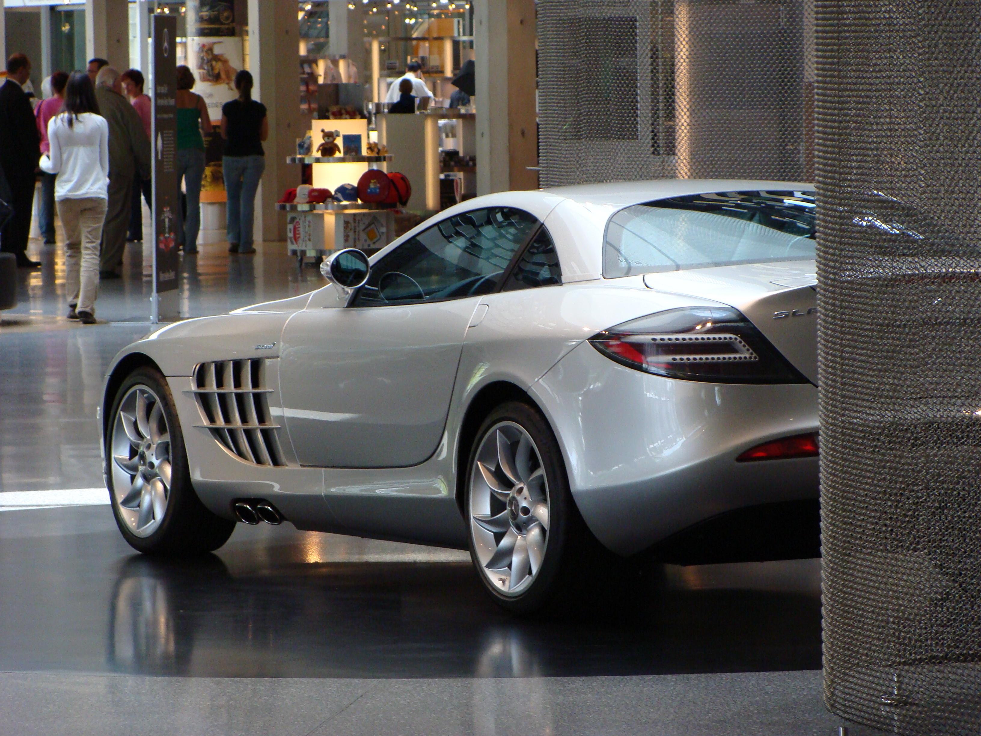 McLaren SLR inside the Mercedes-Benz museum, Stuttgart, Germany